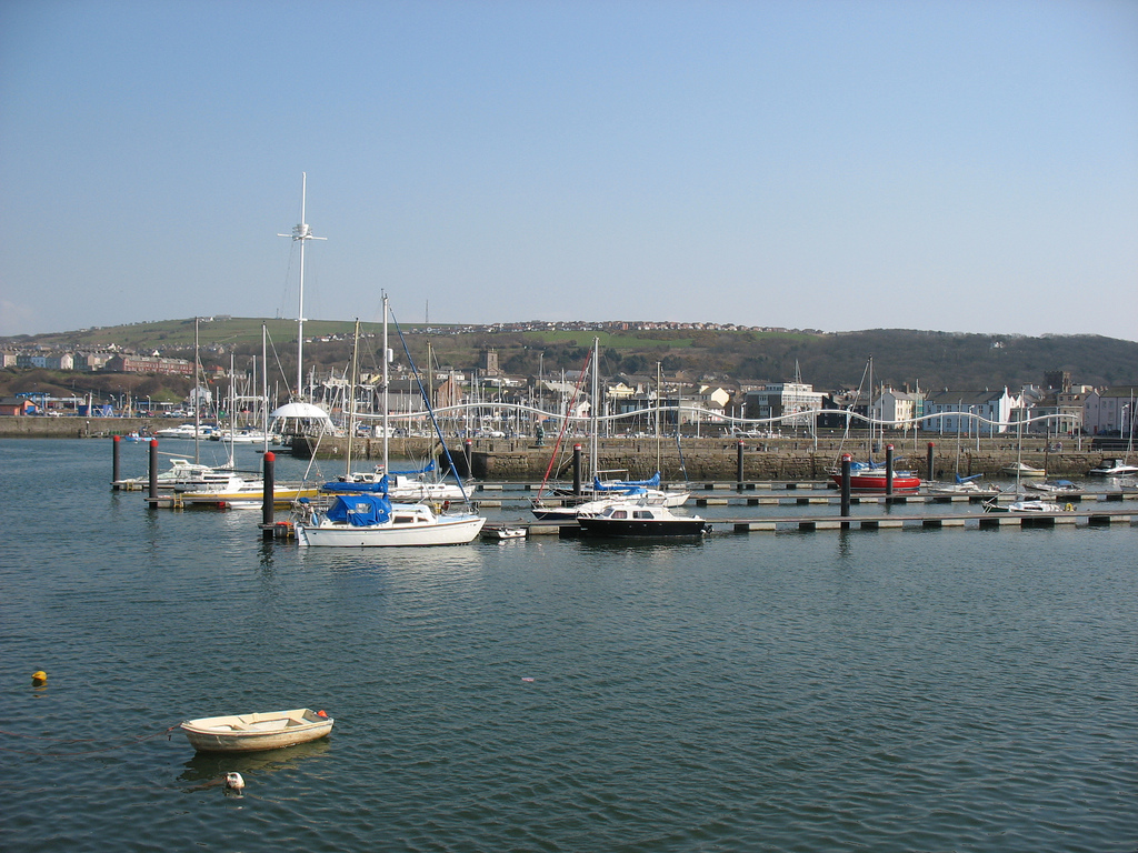 Harbour of Whitehaven, Cumbria, England